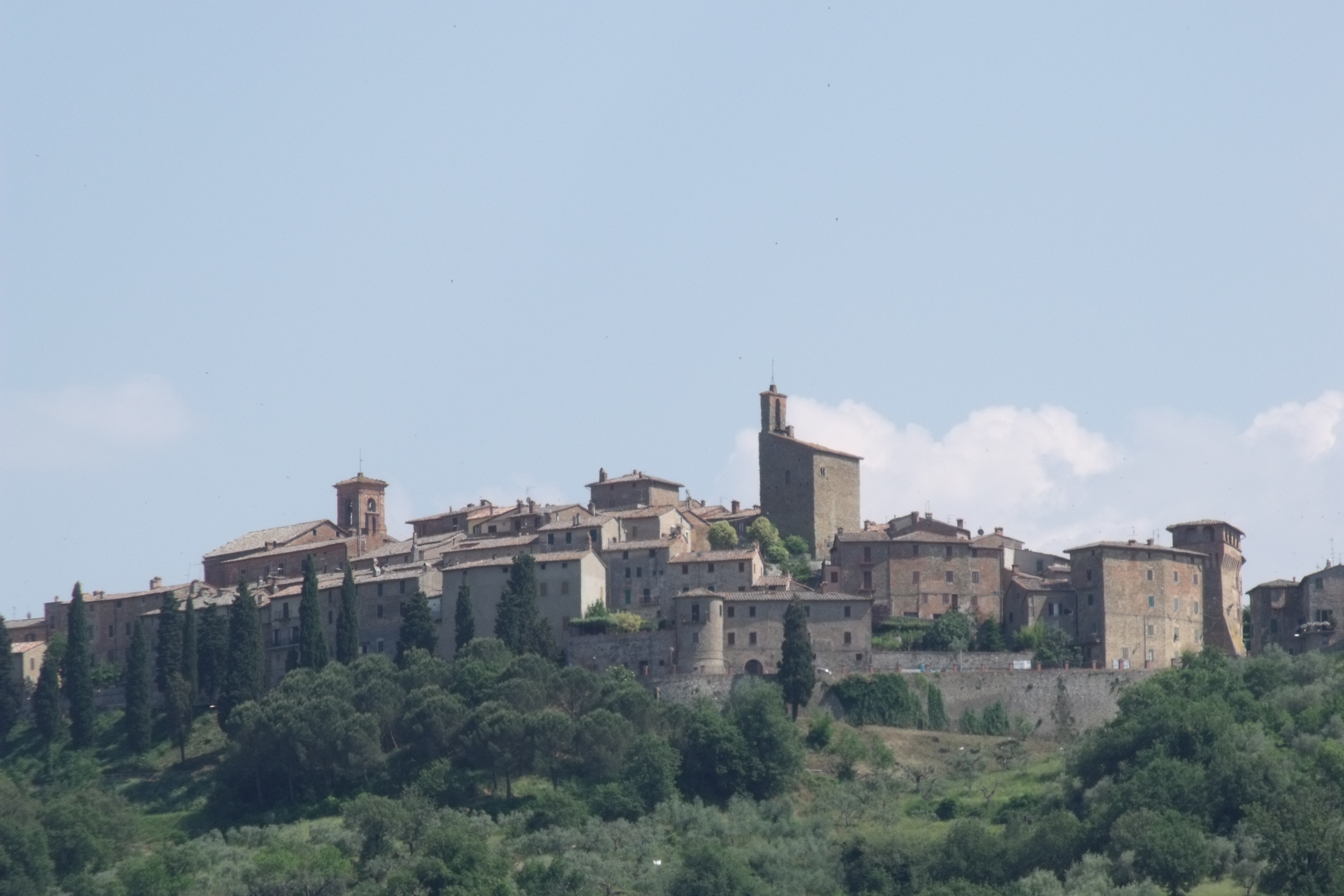 Panorama of Panicale, Province of Perugia, Umbria, Italy